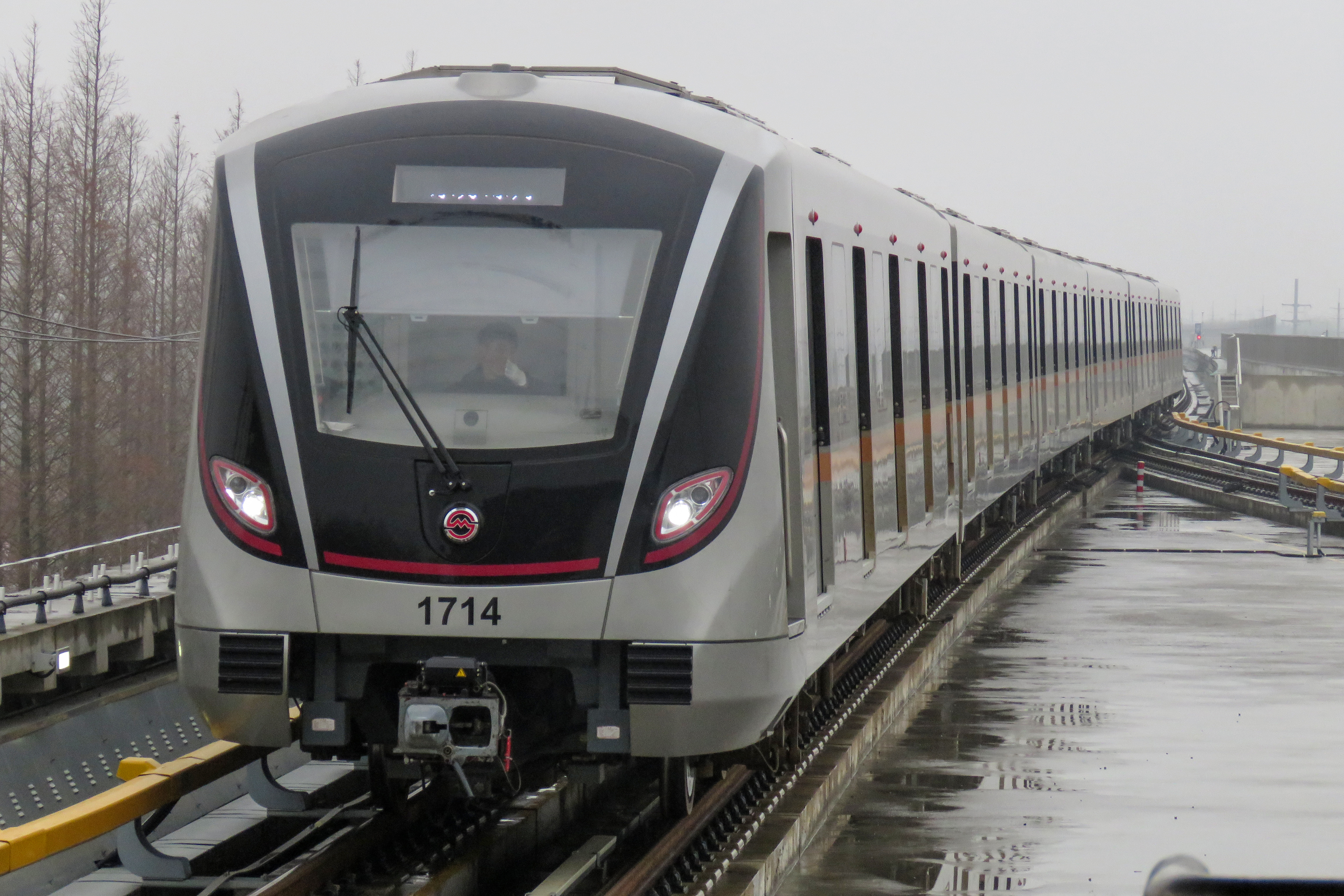 Entering the terminal. Pity about the weather.